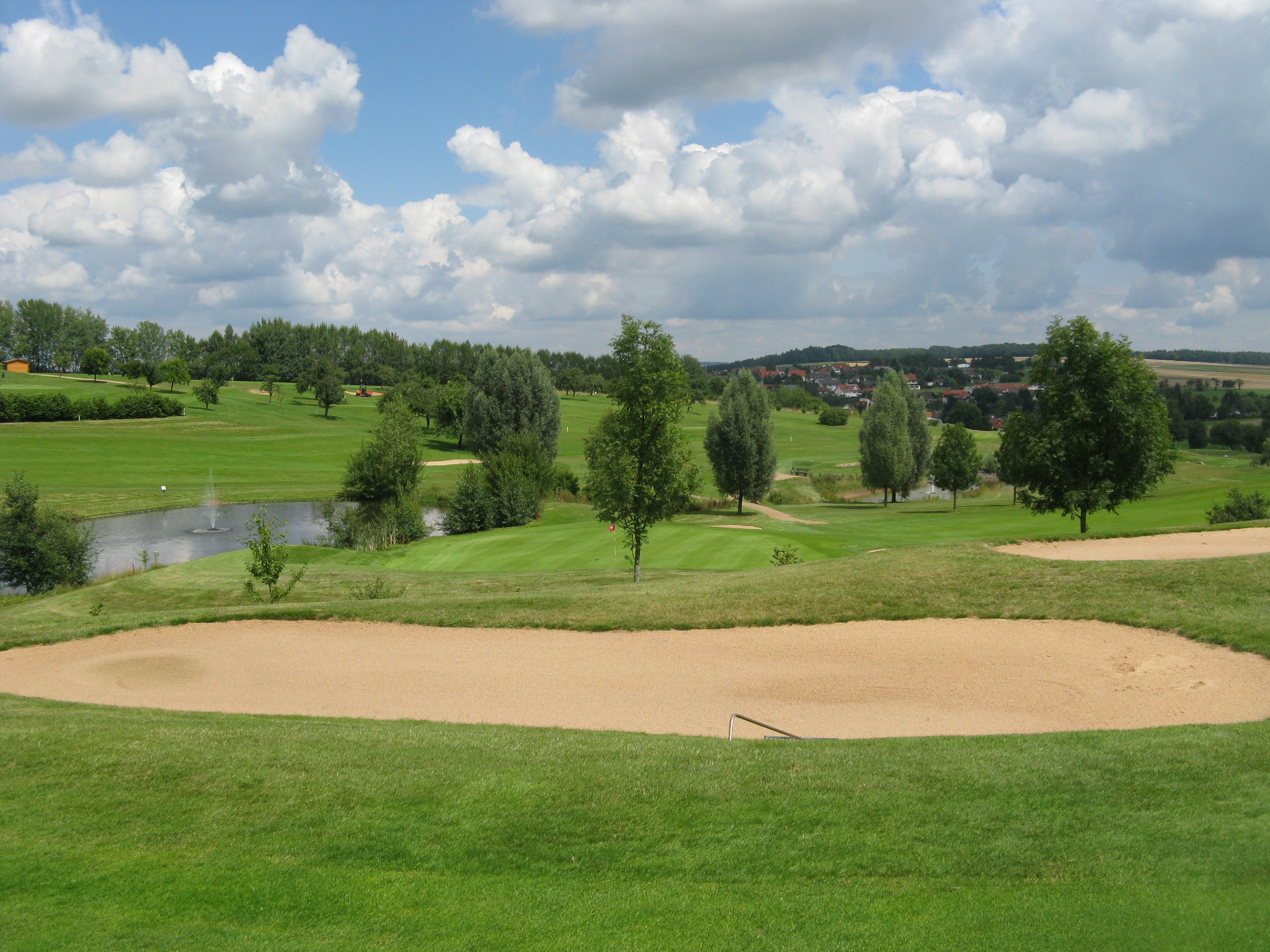 golf course Odenwald e.V., hole 3